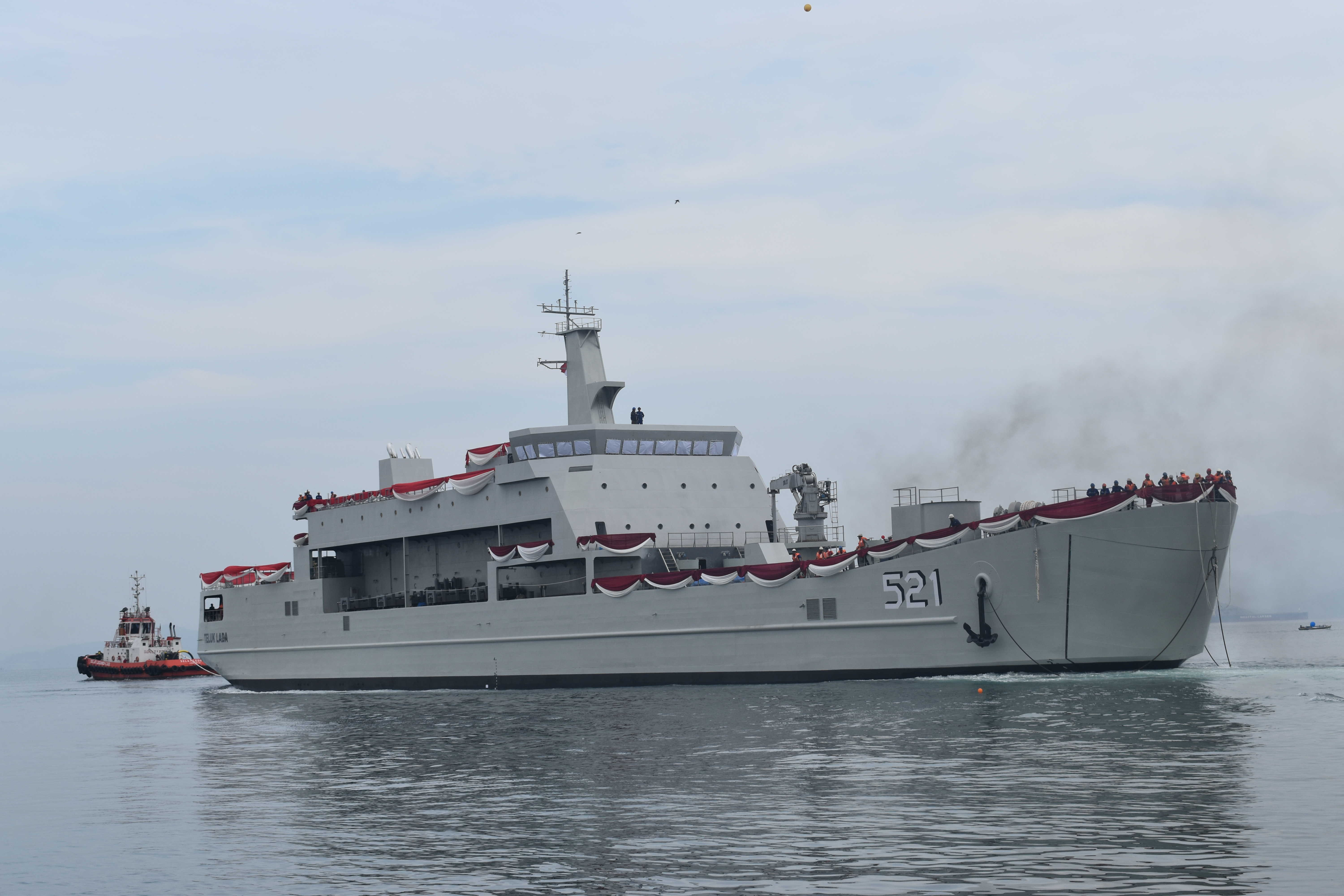 KRI Teluk Lada (521) during her launching ceremony at PT. Daya Radar Utama (DRU) facilities in Bandar Lampung.